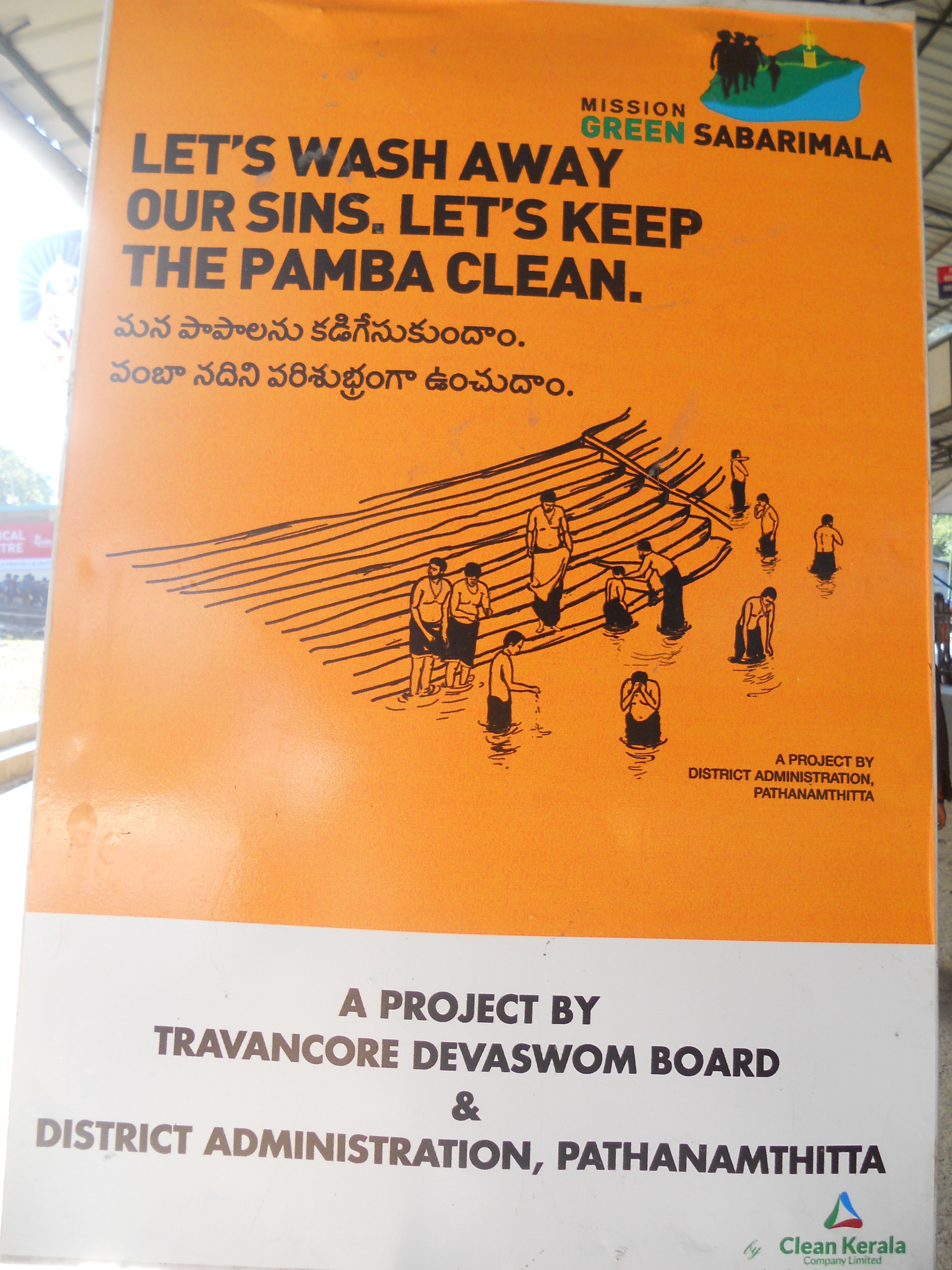 An information signage displayed near the Pamba River Bathing Ghat.